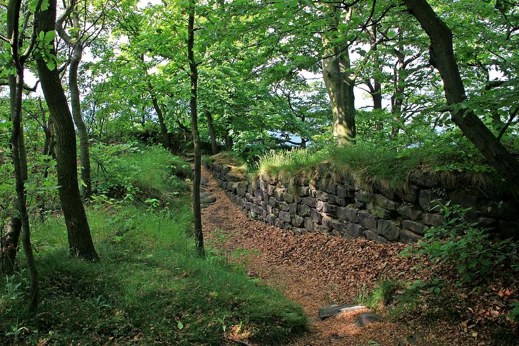 This image shows the ruins of the former Lilienstein Castle, a medieval castle on top of the Lilienstein (415 metres) in the Saxony Switzerland.